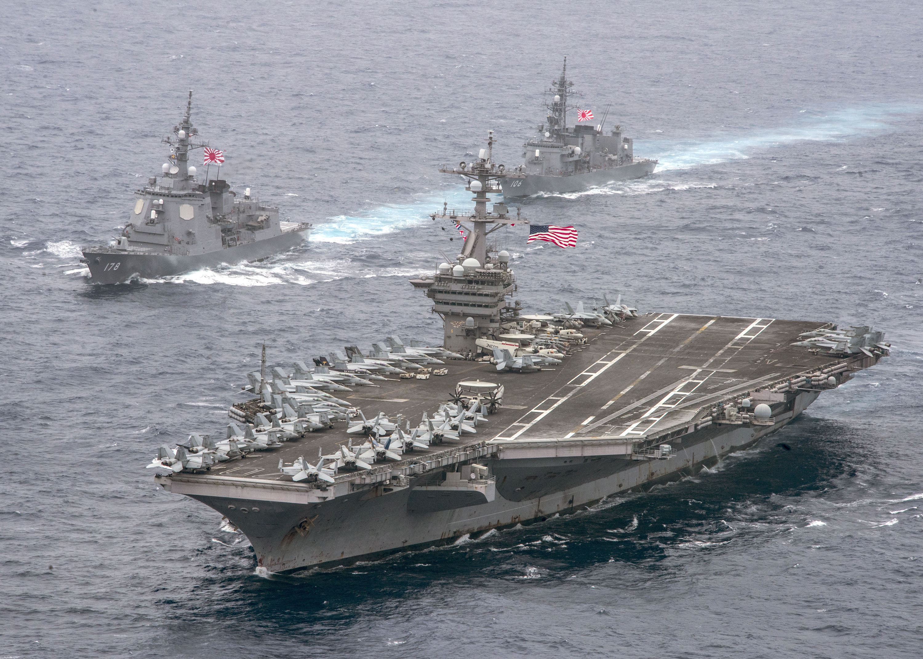 PHILIPPINE SEA (April 26, 2017) The aircraft carrier USS Carl Vinson (CVN 70), foreground, and the Japan Maritime Self-Defense Force (JMSDF) Atago-class guided-missile destroyer JS Ashigara (DDG 178), left, and the JMSDF Murasame-class destroyer JS Samidare (DD 106) transit the Philippine Sea. The U.S. Navy has patrolled the Indo-Asia-Pacific routinely for more than 70 years promoting regional peace and security. (U.S. Navy photo by Mass Communication Specialist 2nd Class Sean M. Castellano/Released)170426-N-BL637-175 Join the conversation: navylive.dodlive.mil